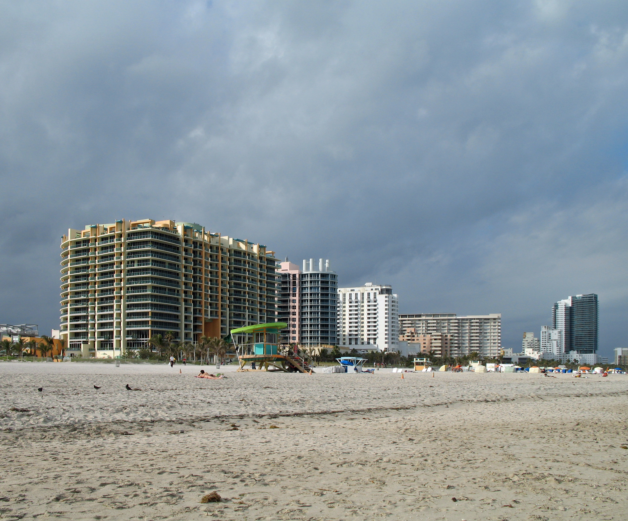 Miami Beach (Florida, USA)